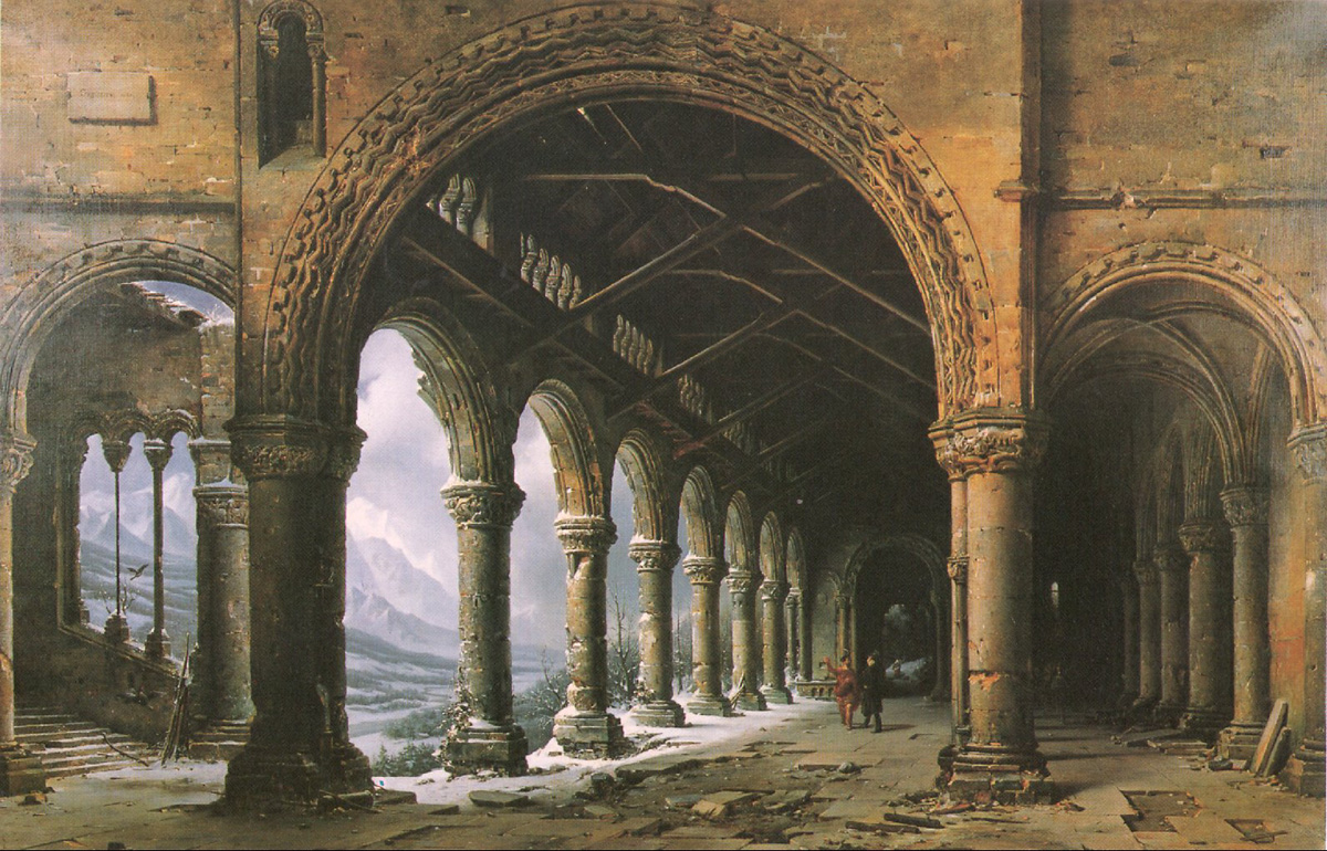 The Effect of Fog and Snow Seen through a Ruined Gothic Colonnade. Oil on canvas, Gerard Levy Collection.